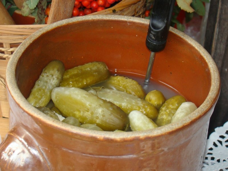 cuisiene